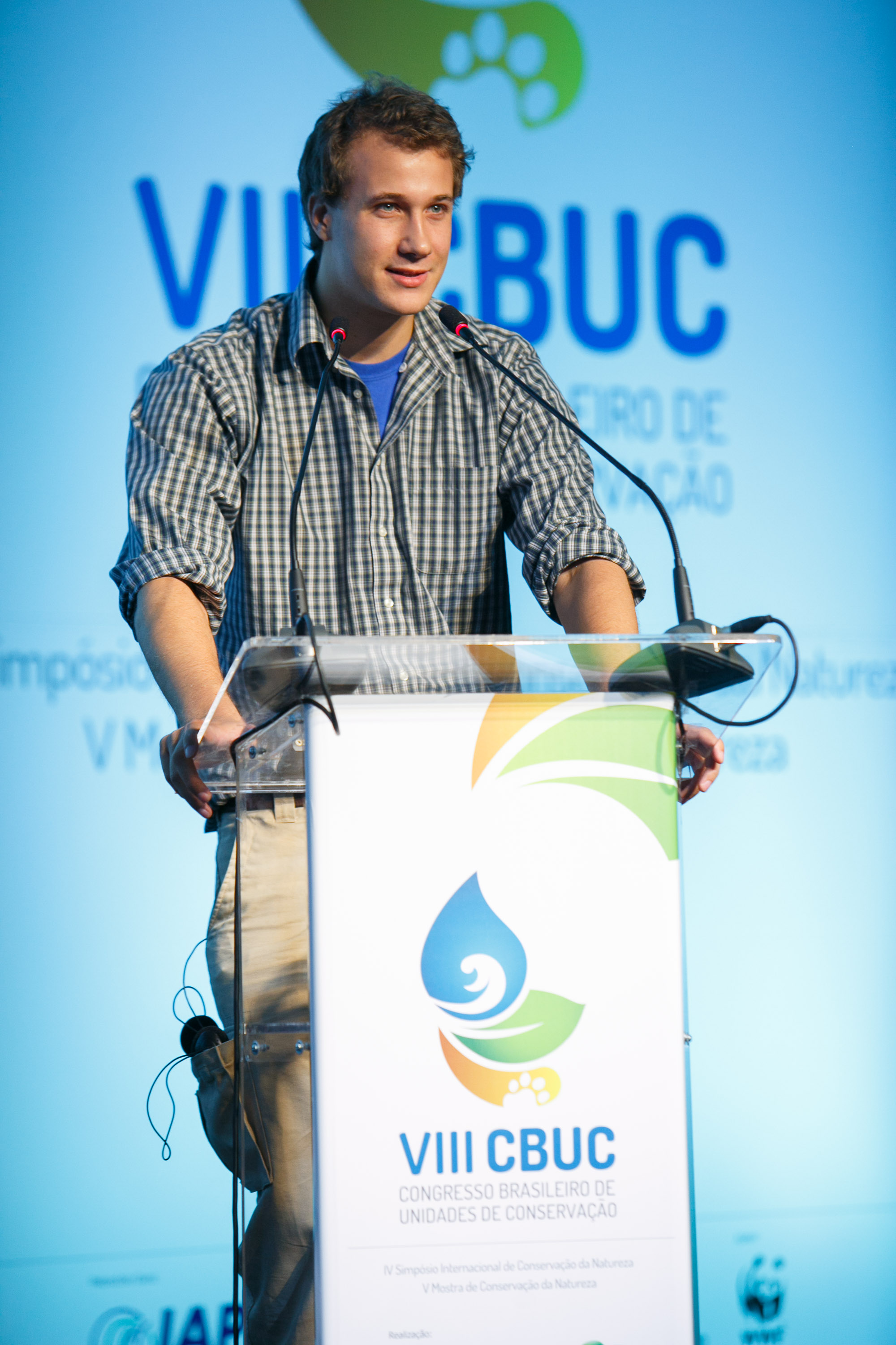 Ryan Hreljac speaking at a conference in Brazil in 2014